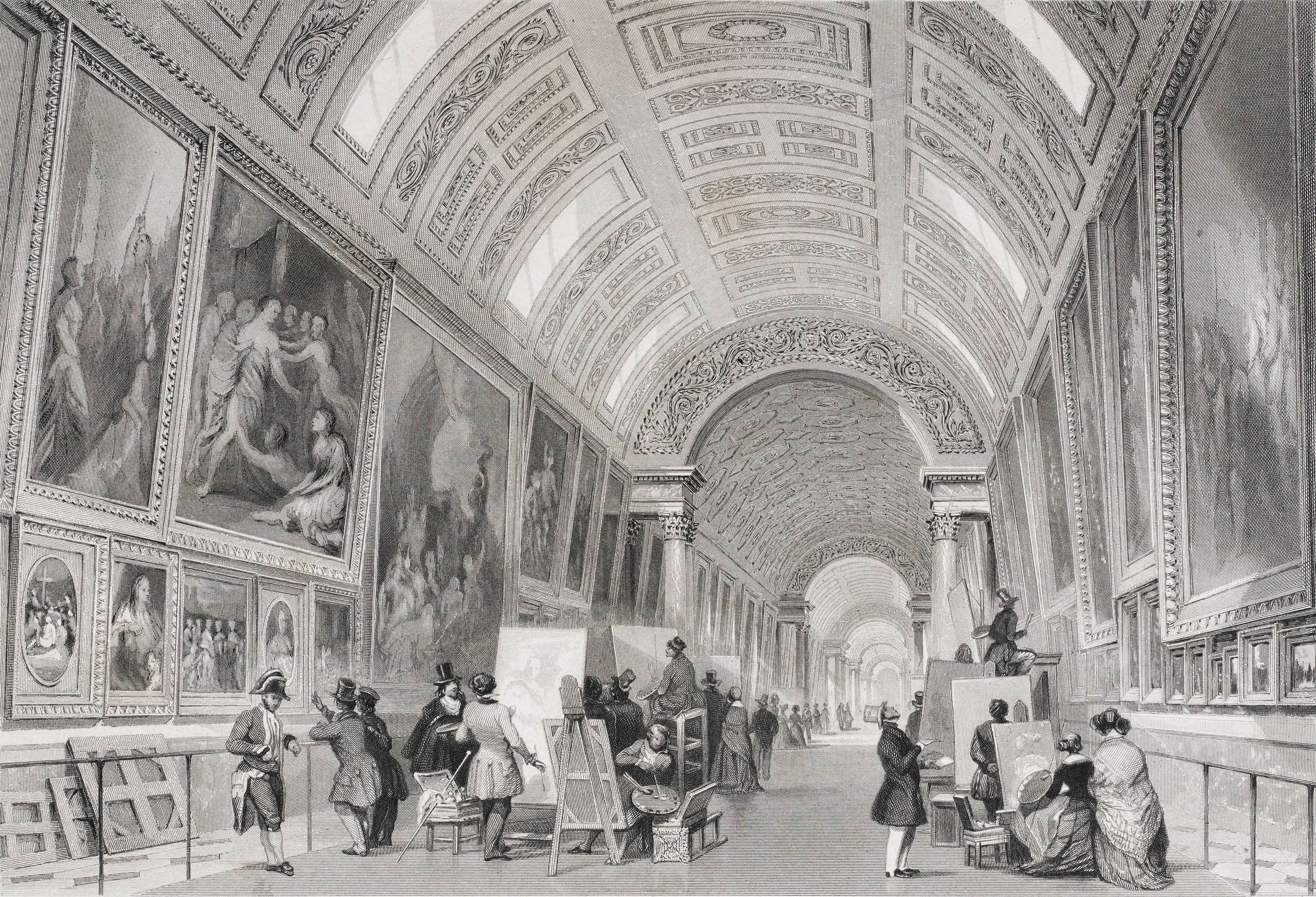 Interior view of the Great Gallery at the Louvre with tourists and painters. Published by Fisher, Son & Co., London and Paris.